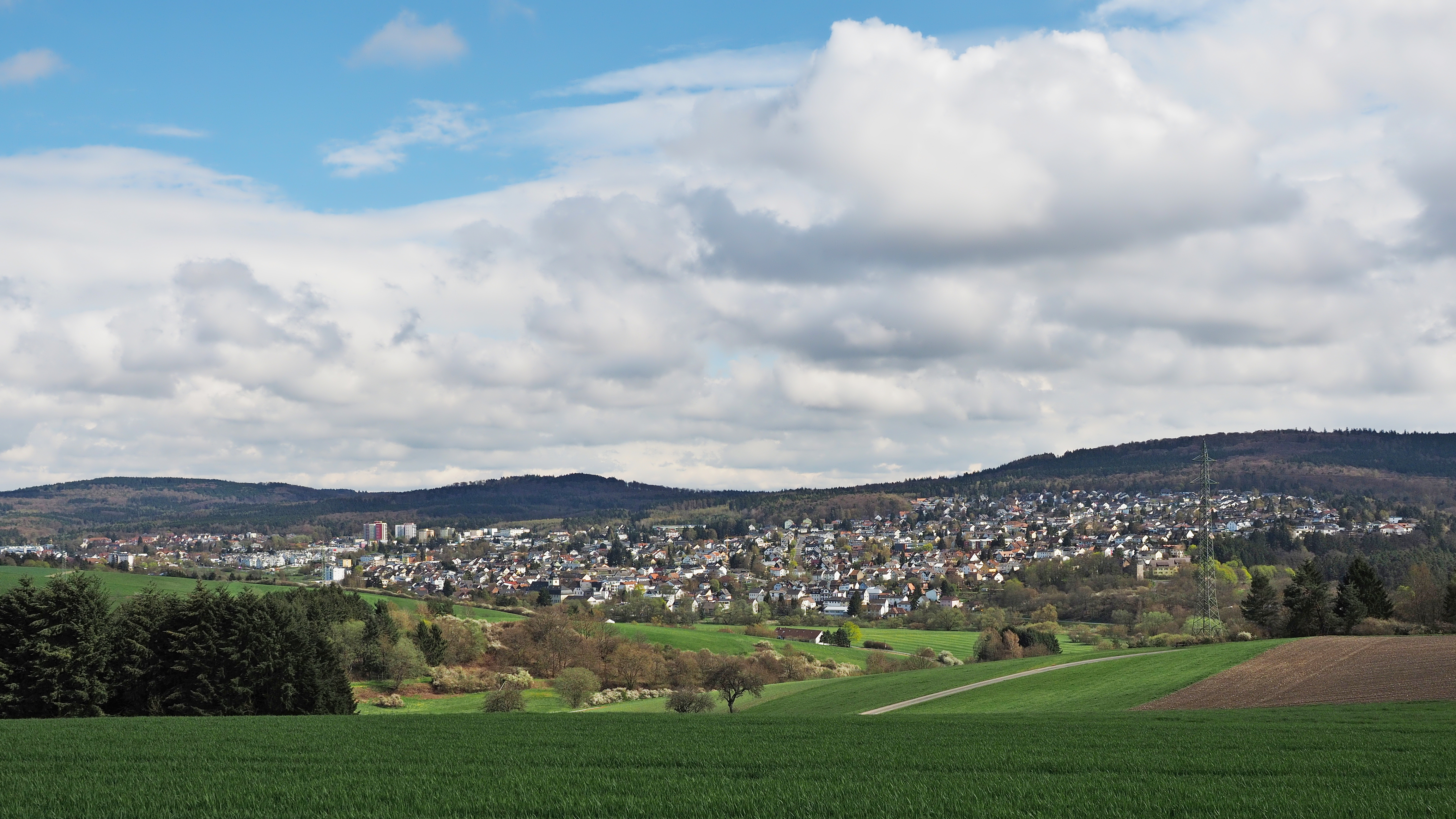 Part of Taunusstein, Germany